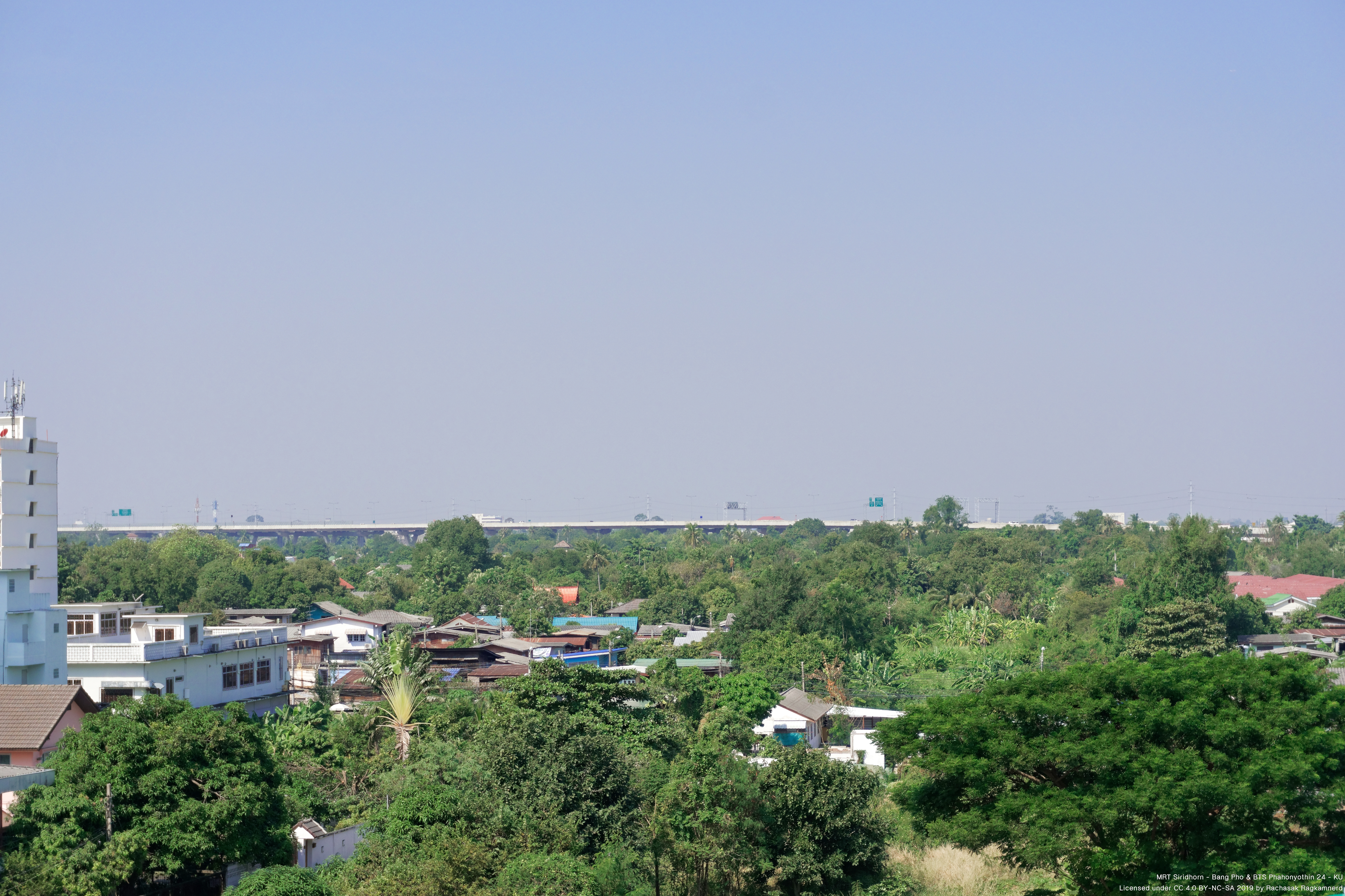 MRT Bang Plad - Platform view